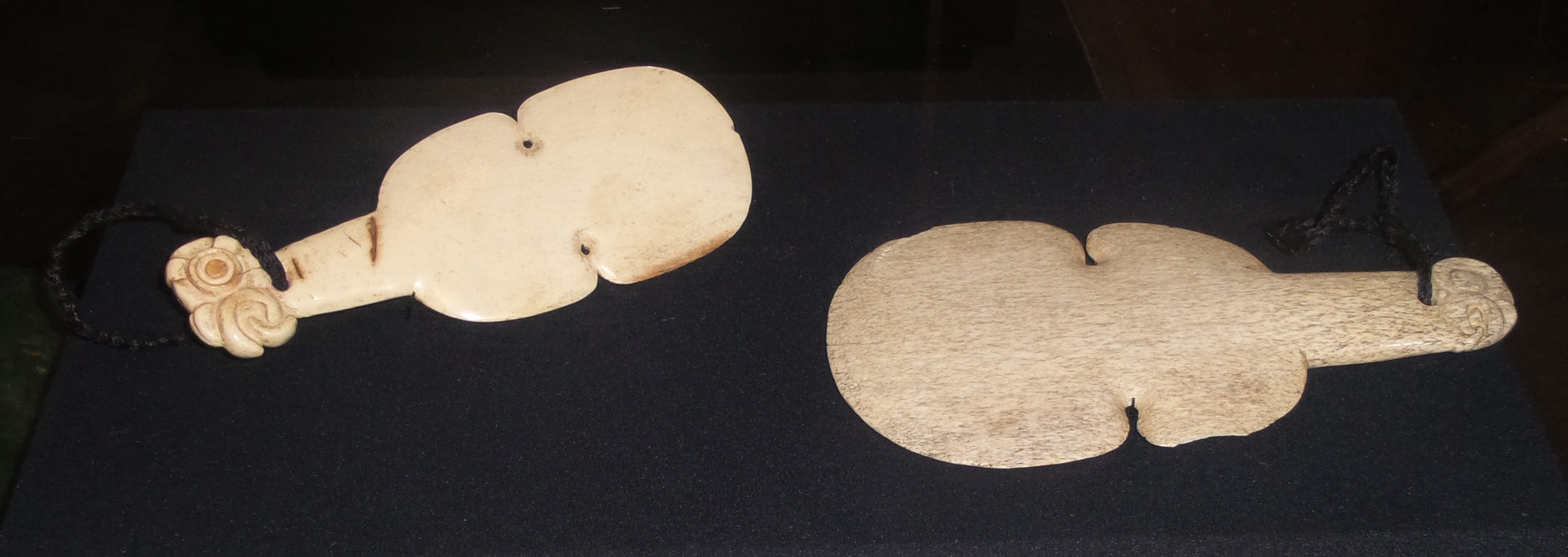 Maori kotiate made from whale bone, display in Te Papa, Museum of New Zealand.